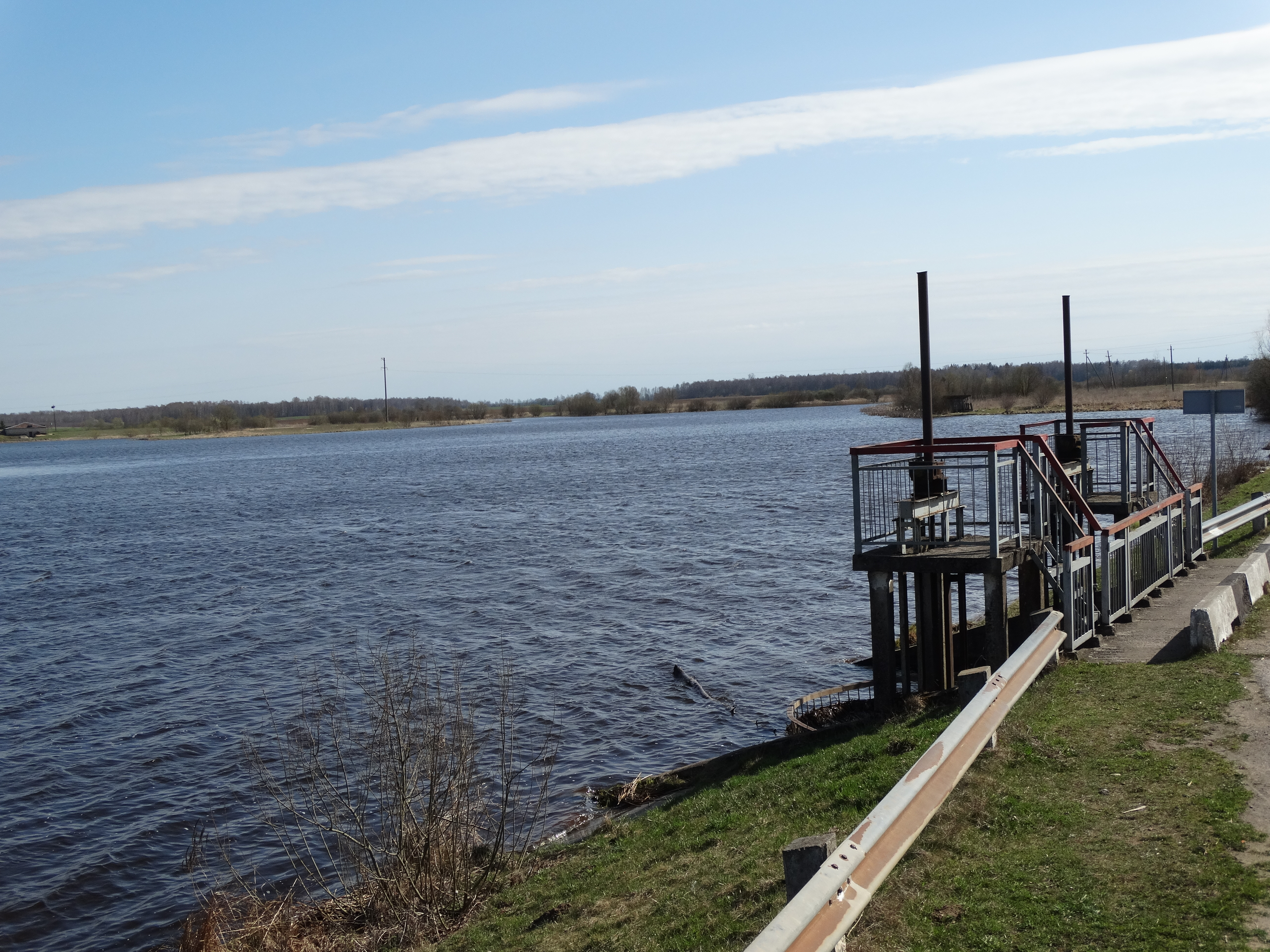 Jotainiai pond, Panevėžys District, Lithuania